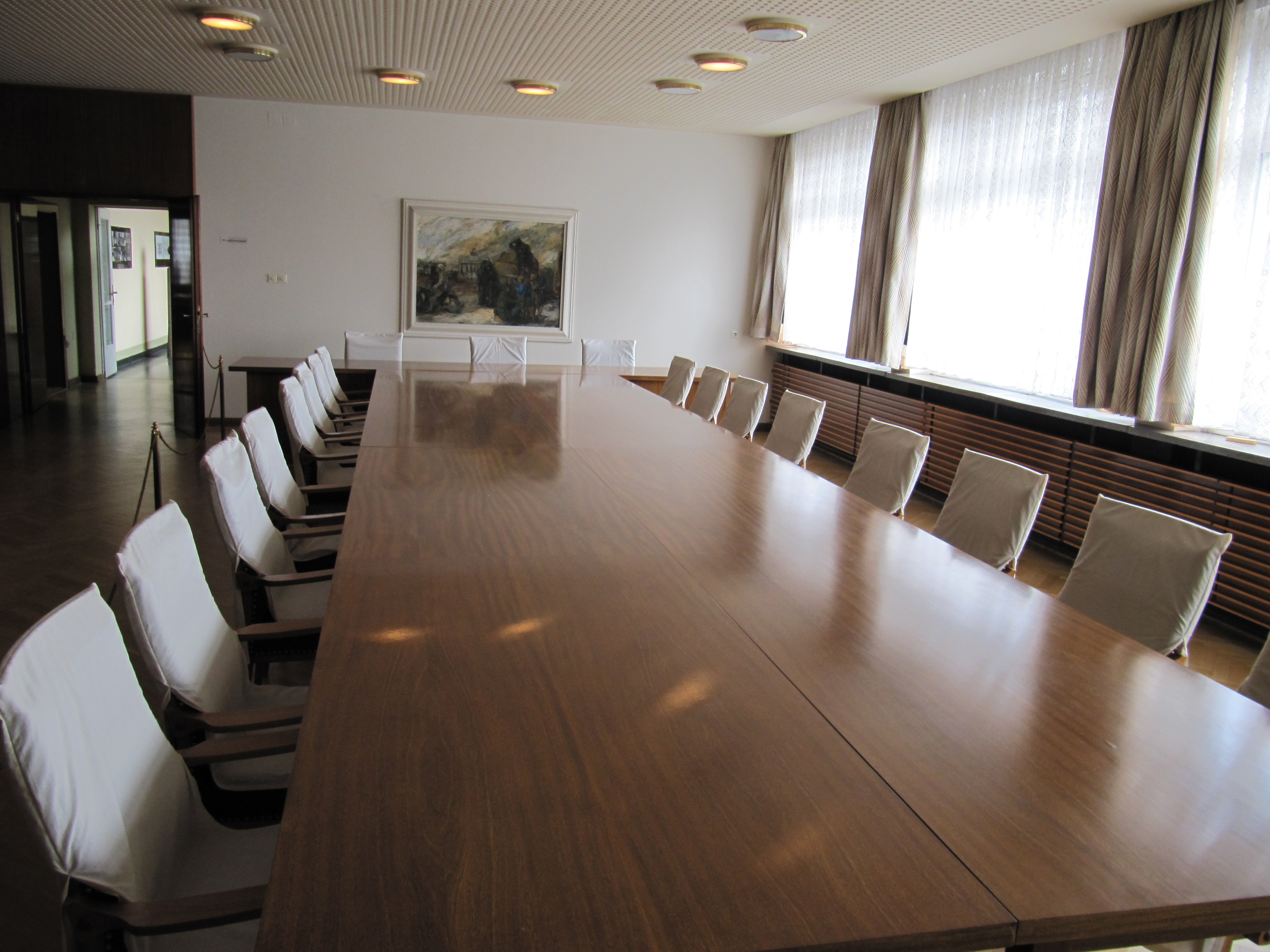 Erich Mielkes conferenceroom in his Stasi-central in Berlin-Lichtenberg where he used to meet the 16 Bezirk-leaders from Stasi-departments all over the GDR.